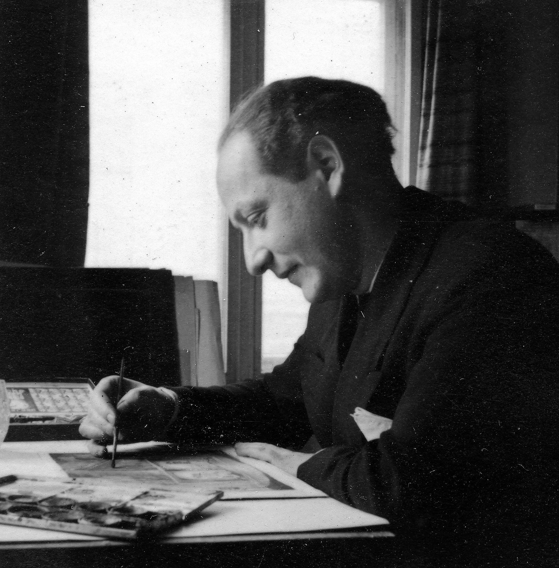 Heinz Condell - German stage and costume designer; co-founder of the Jewish Kulturbund-Theater in Berlin.